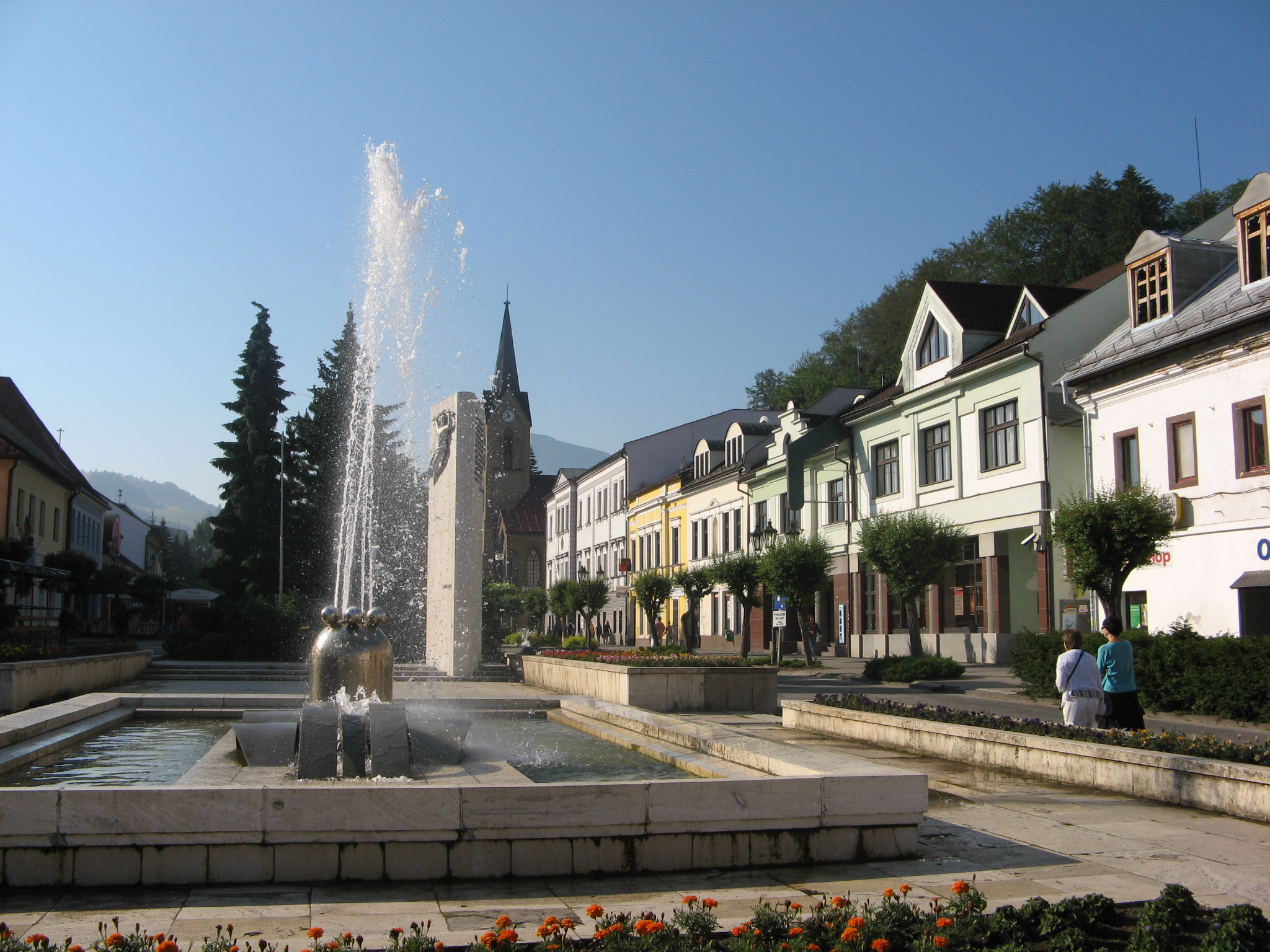 Main street of Dolny Kubin